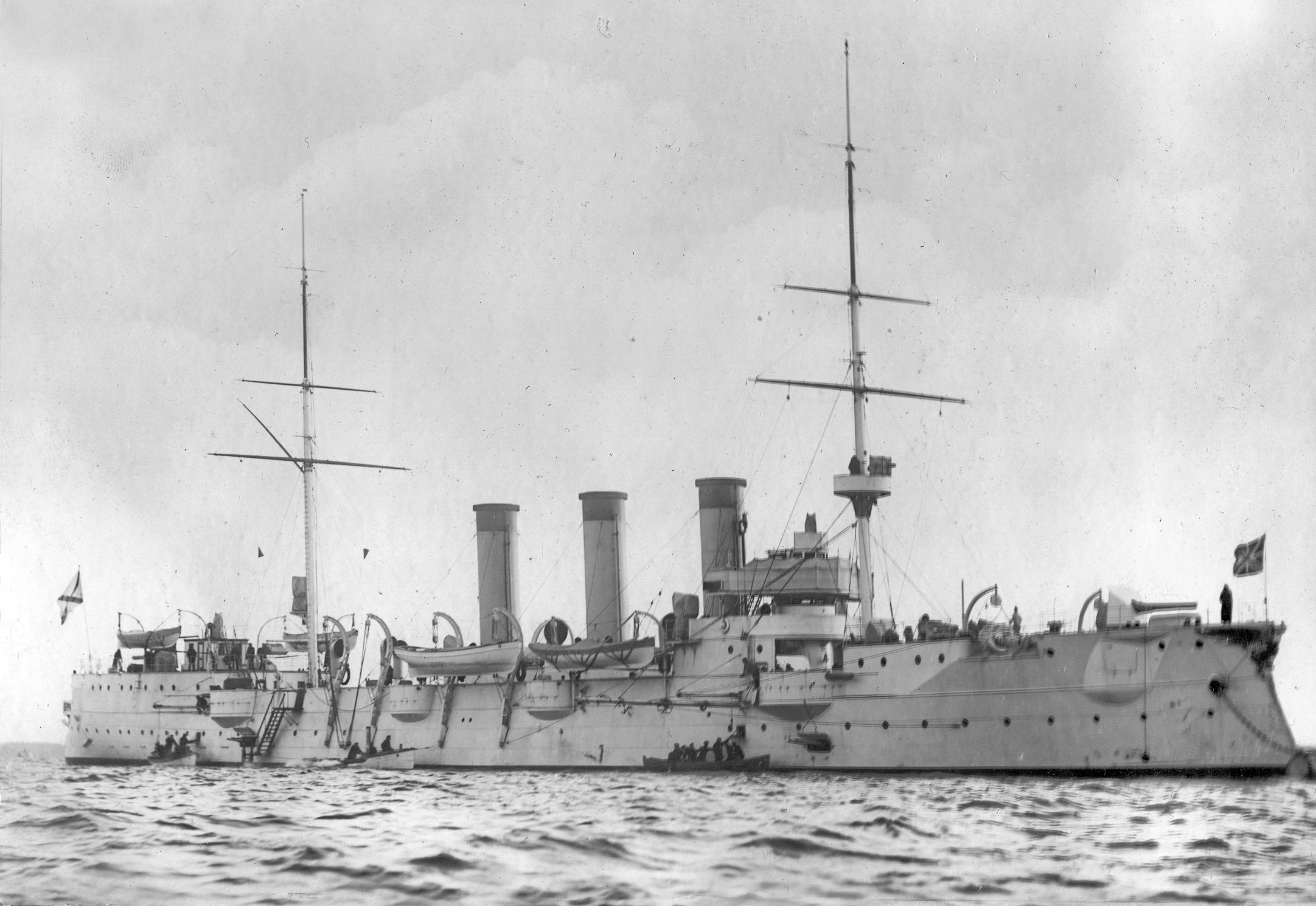 The Imperial Russian protected cruiser Boyarin.